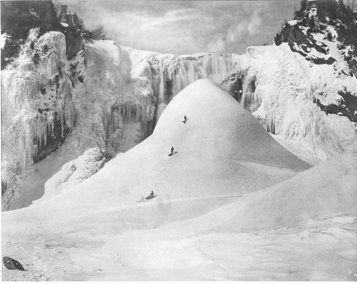 "Ice cone, Montmorency Falls, QC, 1876", photo by Alexander Henderson